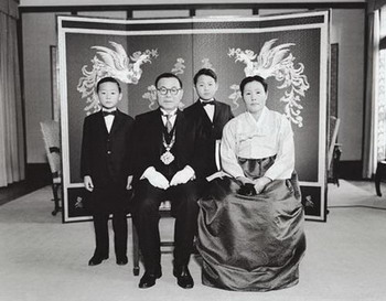 South Korean President Yun's and Kong's Family